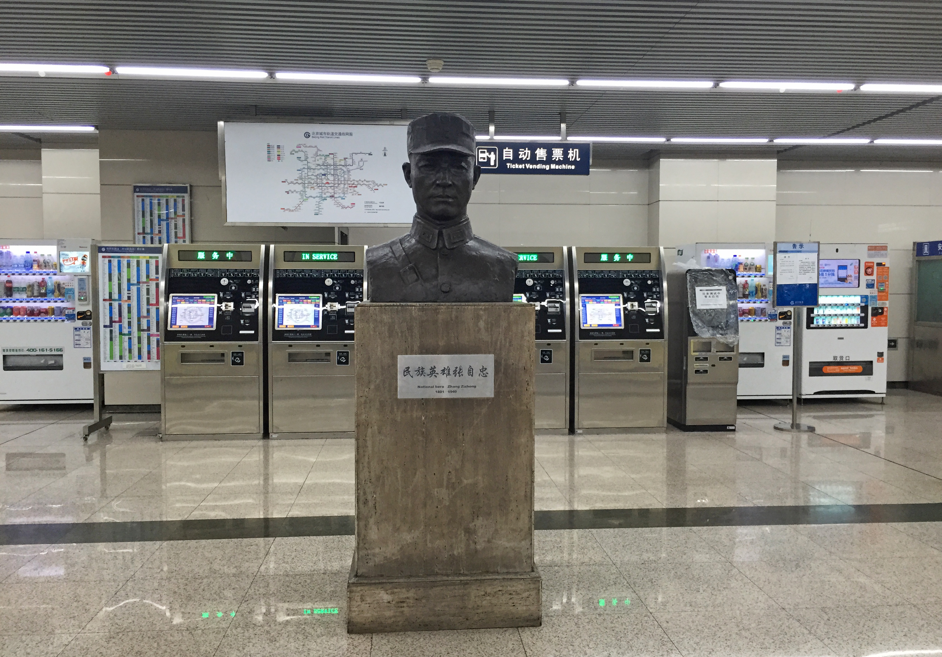 In the non-paid area of north concourse - just in front of TVMs.